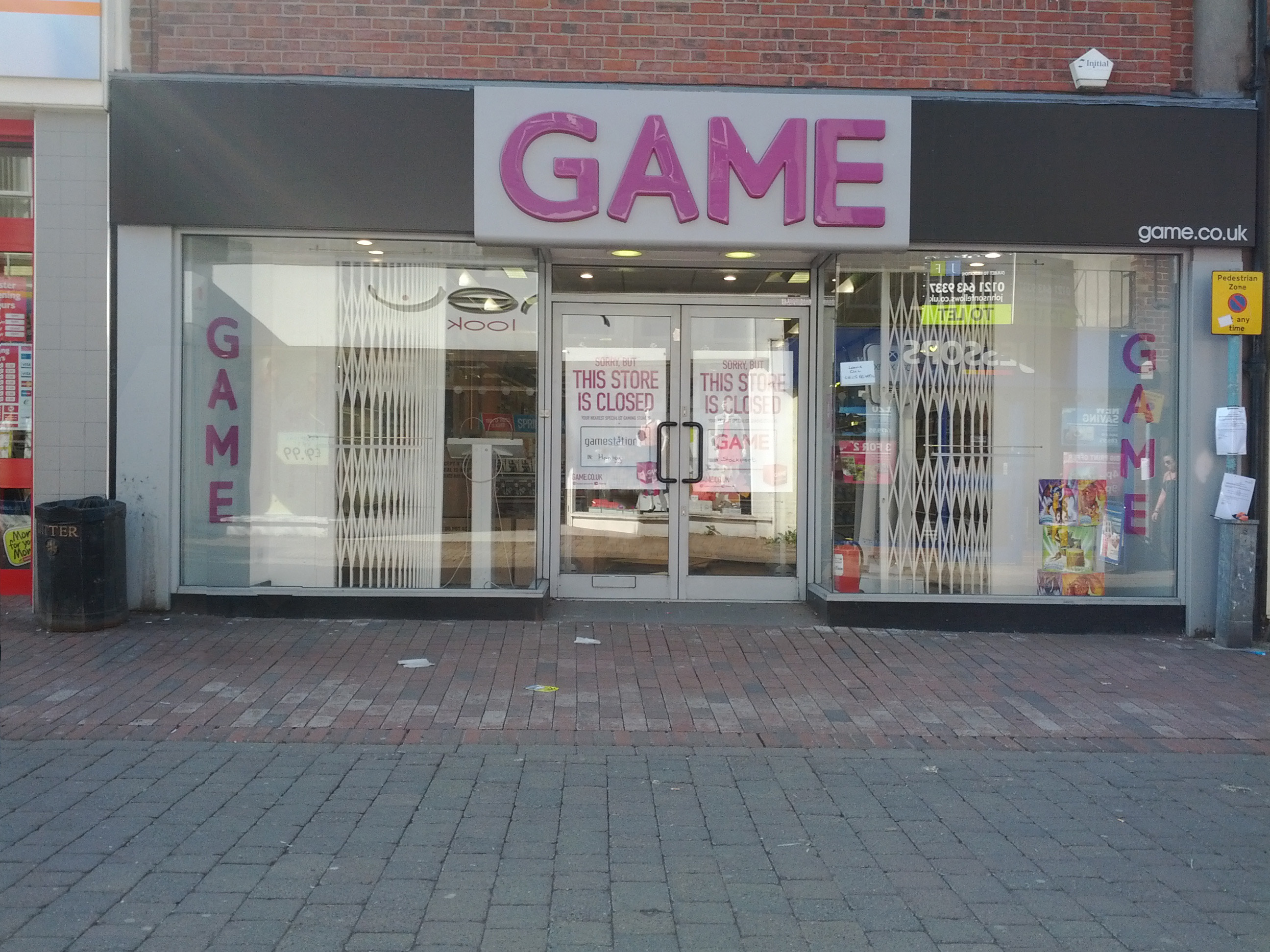 A Game store closed by administrators on 26 March 2012